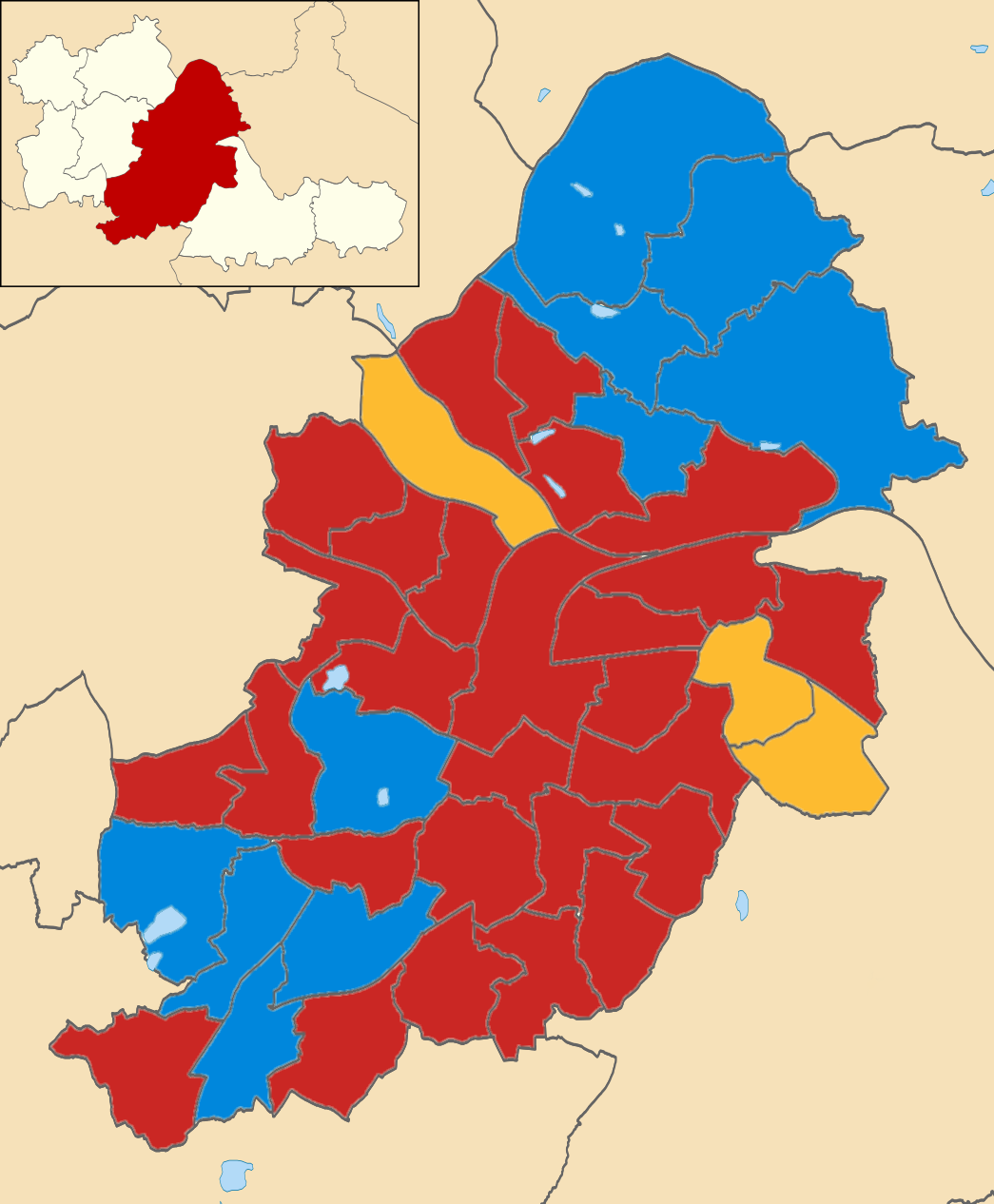 Results of the 2011 local elections in Birmingham Colours: Conservative Labour Liberal Democrat